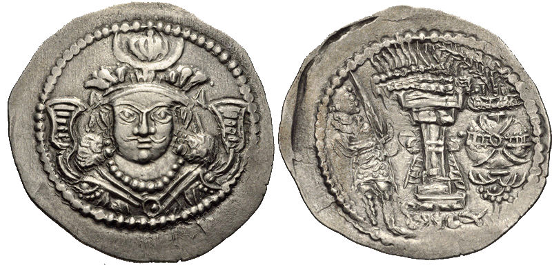 Kidarites ruler King B Late 4th-early 5th century CE. AR Drachm (28mm, 4.05 g, 3h). Crowned bust facing / Fire altar with attendants and ribbons; ‘PYRWC’ in Pahlavi in exergue.